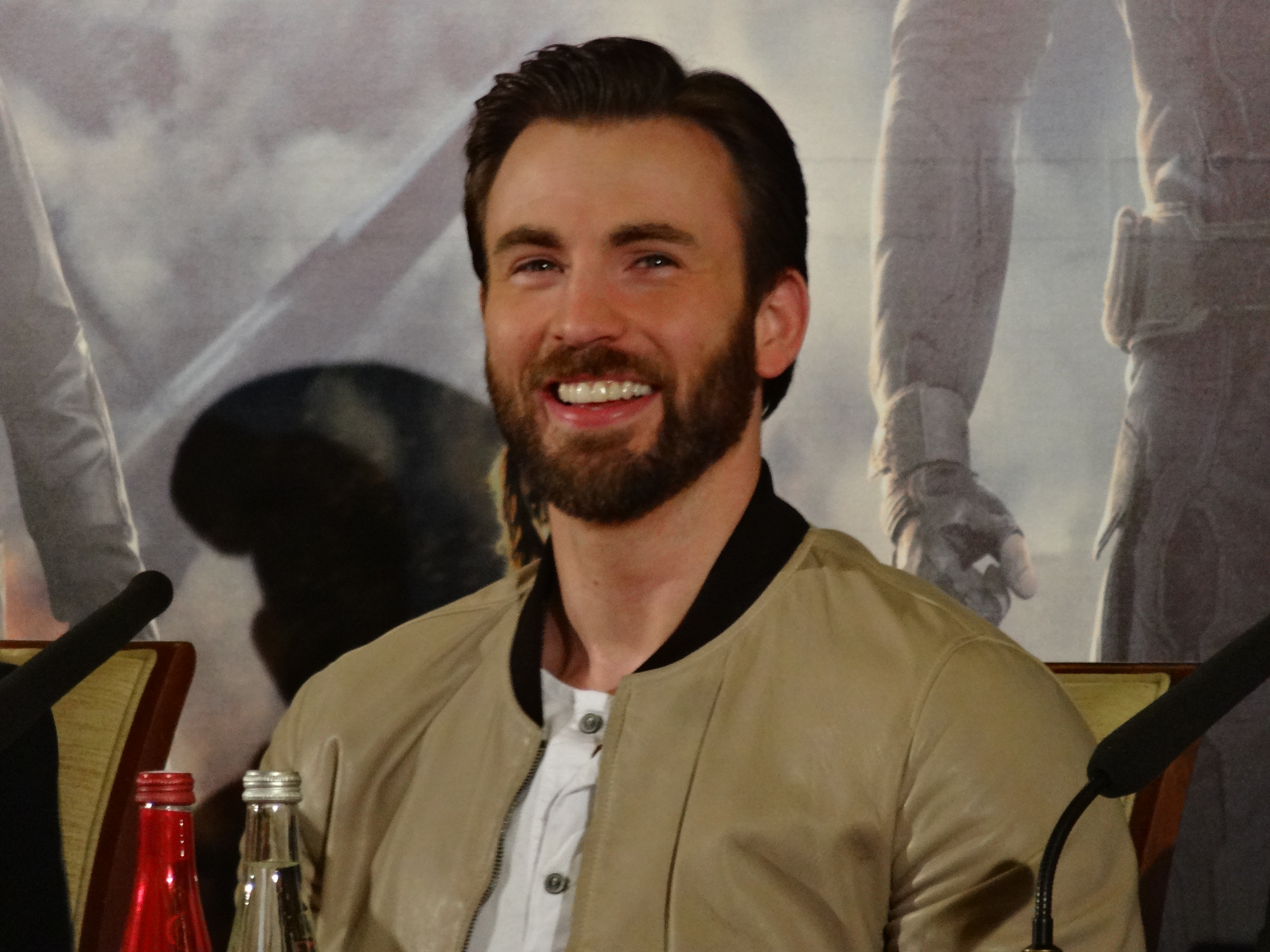 Chris Evans at a press conference for Captain America: The Winter Soldier in March 2014.